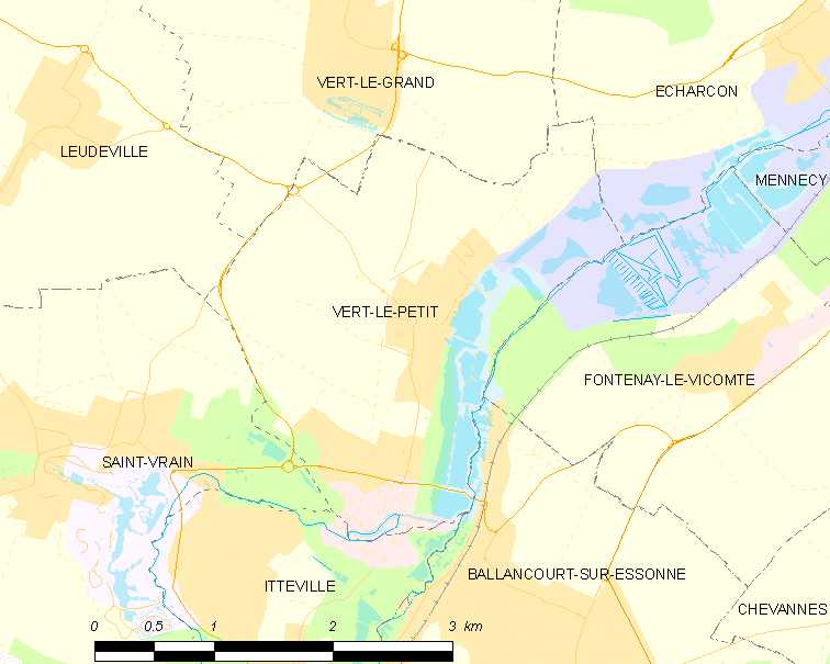 Map of French municipality Vert-le-Petit